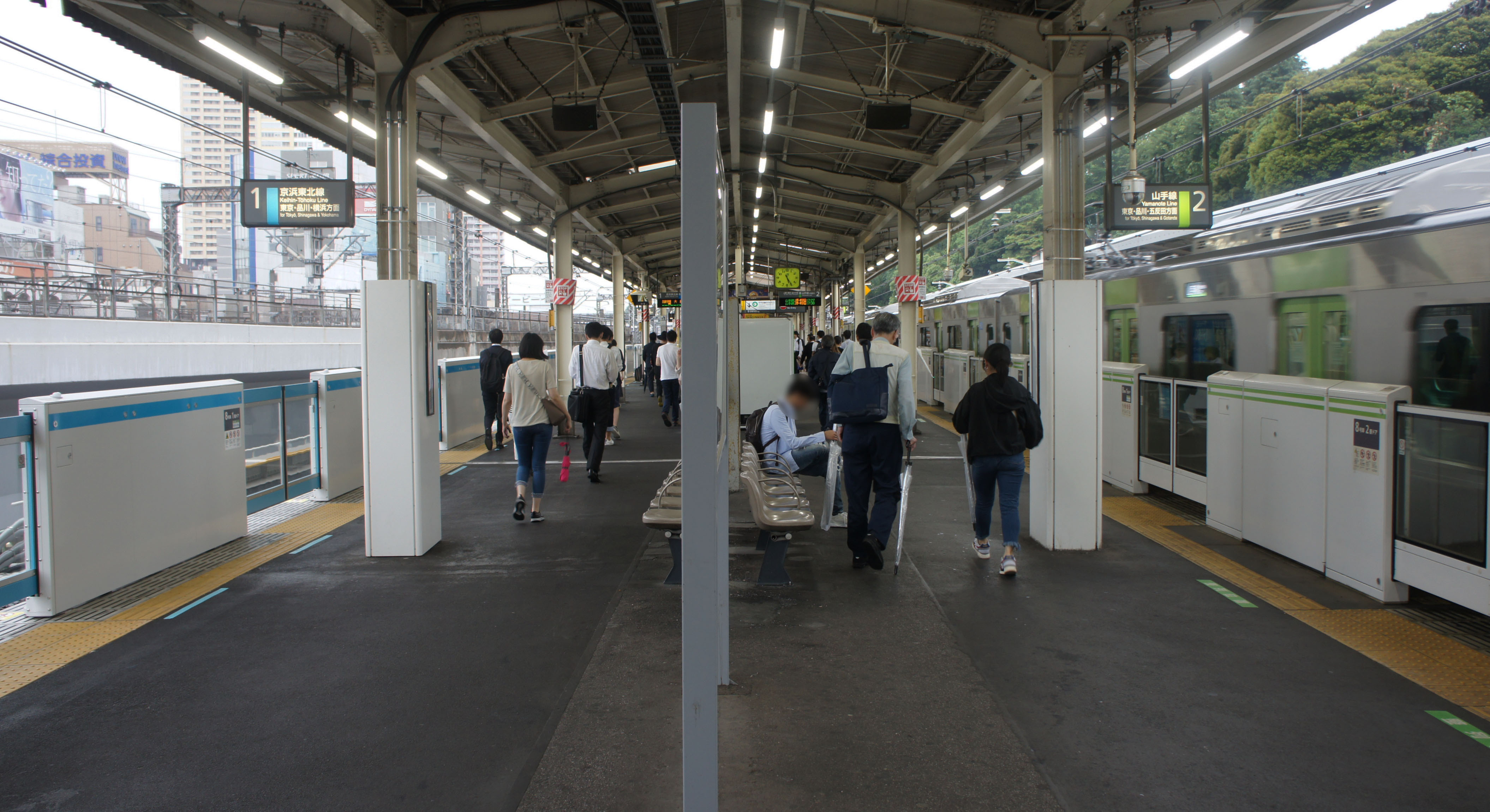 Platform 1・2 of JR Nishi-Nippori Station Sony NEX-3 + E 18-55mm F3.5-5.6 OSS